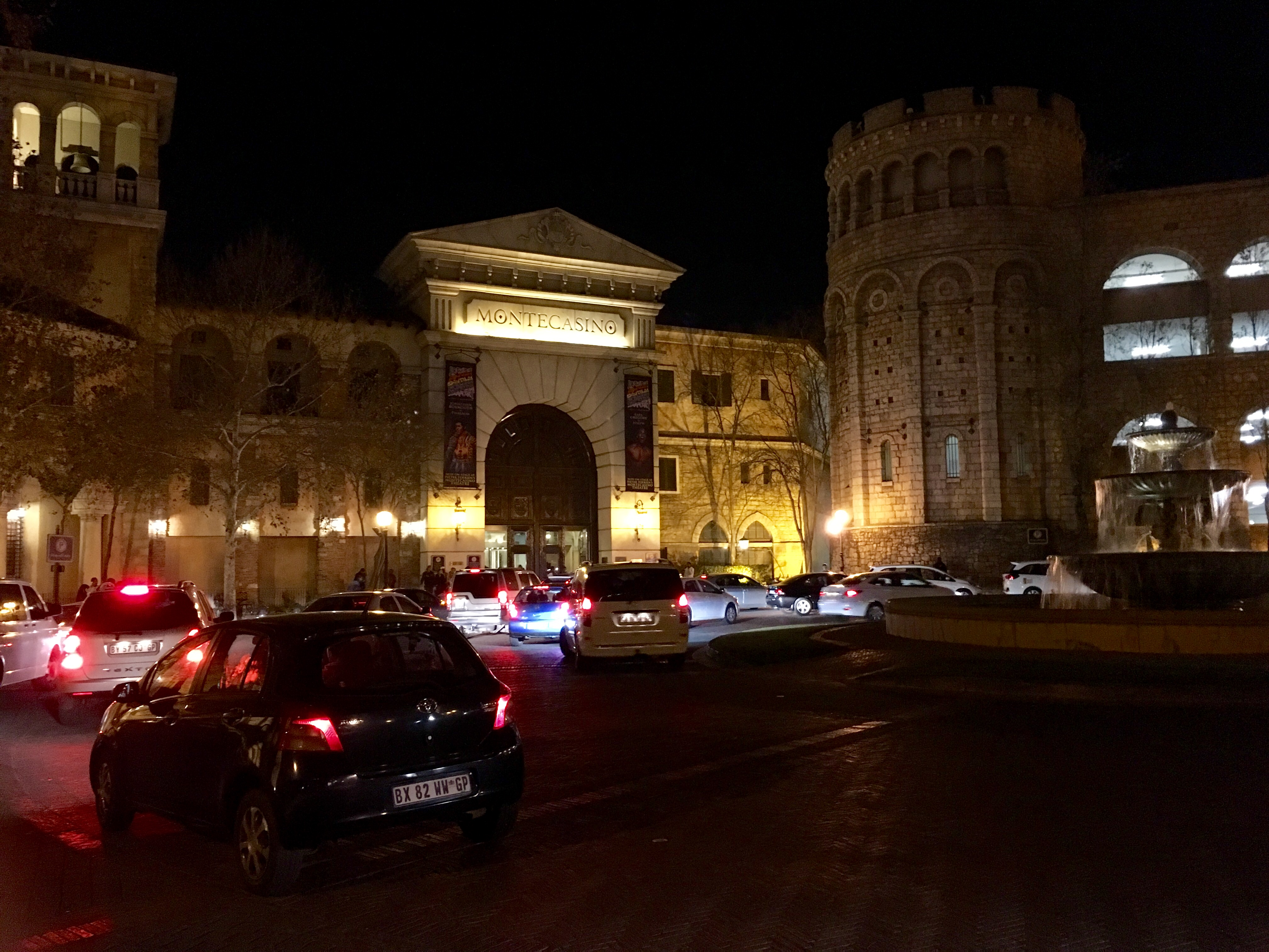 The Main Entrance of Montecasino pictured at night, 2016.